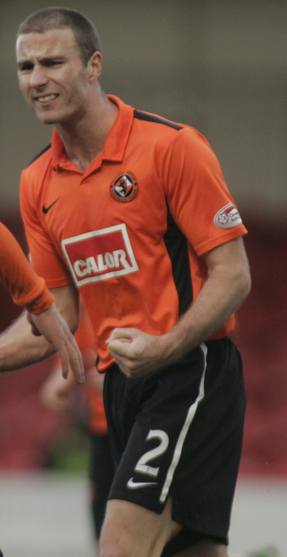 Clydesdale Bank Scottish Premier League - Hamilton Academical vs Dundee United. Dundee Utd's Andis Shala wheels away in jubilation after scoring to equalise against the Accies at New Douglas Park, Hamilton. Picture : Alasdair Middleton/Universal News & Sport (Scotland) Saturday 26th February 2011 Universal News and Sport (Europe) All pictures must be credited to (0ffice) 0844 884 51 22